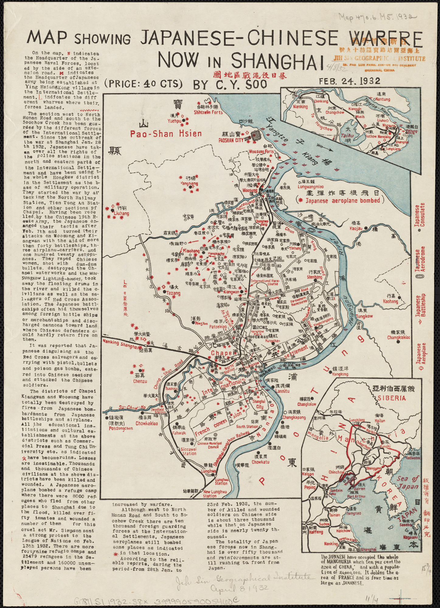 Zoom into this map at . Author: Su, Chia-jung. Publisher: [s.n.] Date: 1932 Location: Shanghai (China) Scale: Scale not given. Call Number: G7811.S1 1932.S8x